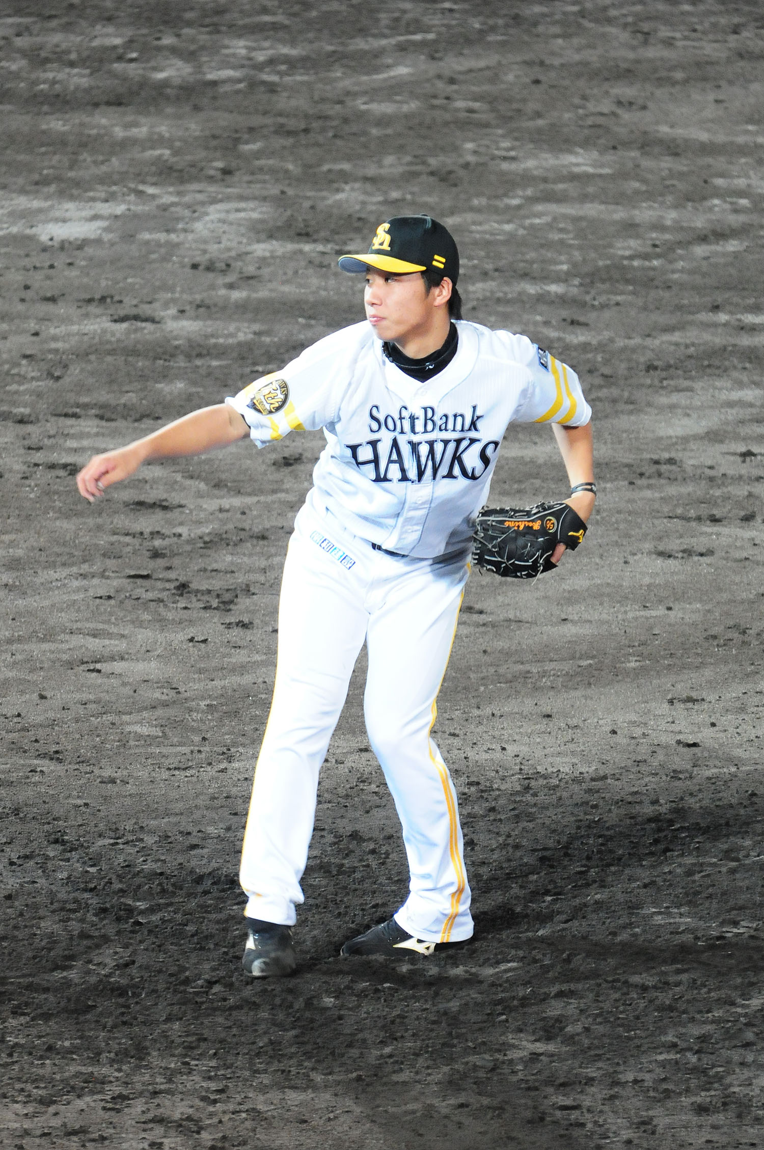 Daichi Hoshino, pitcher of the Fukuoka SoftBank Hawks, at Akita Prefectural Baseball Stadium.